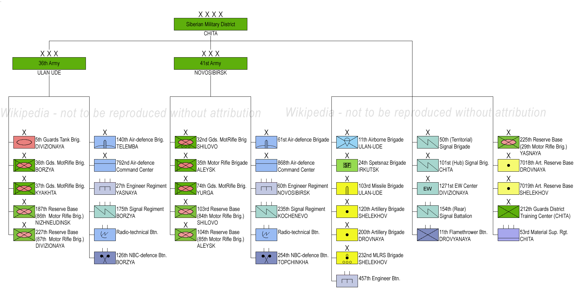 Russian Ground Forces Siberian Military District Structure 2010